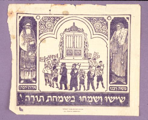 Description: Simhat Torah flag with parade of men and boys circling the bema Creator: Forst, Siegmund and Ktav Publishing House Medium: printed Date: circa 1940-1950 Persistent URL: Repository: Yeshiva University Museum Accession Number: 1997.209-1 Rights Information: No known copyright restrictions; may be subject to third party rights. For more copyright information, click here. See more information about this image and others at CJH Digital Collections.